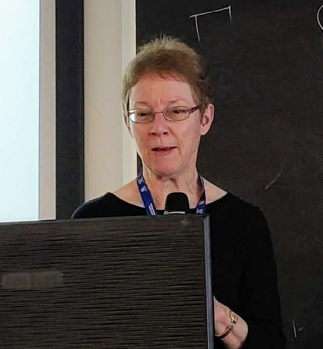 Merrilyn Goos at the Gender gap in science conference in Trieste. 7 November 2019.